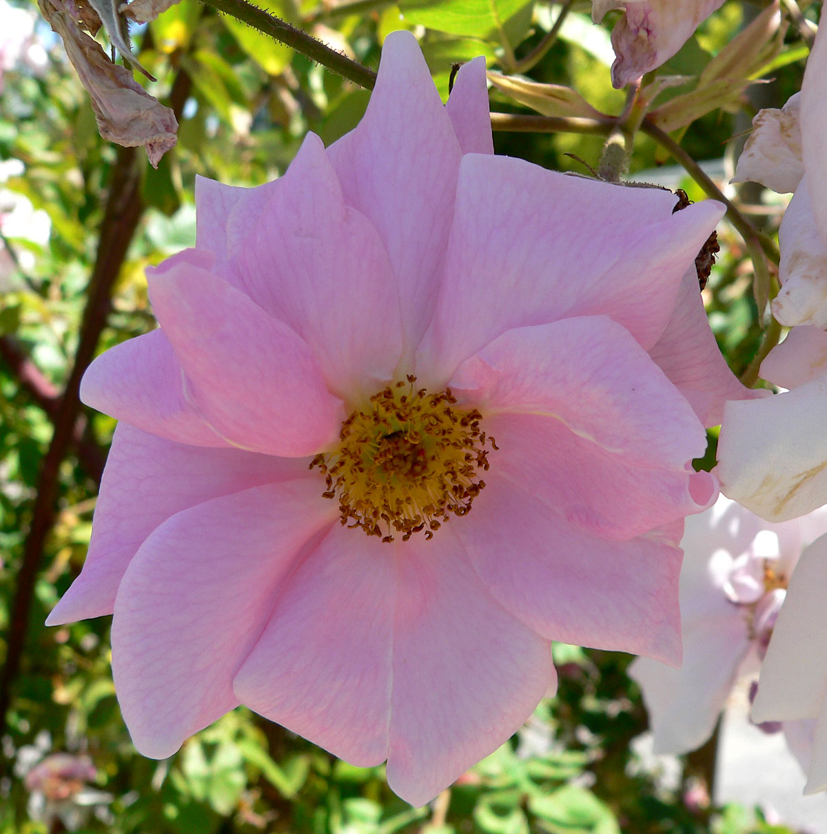 Rosa 'Auguste Roussel' at the San Jose Heritage Rose Garden